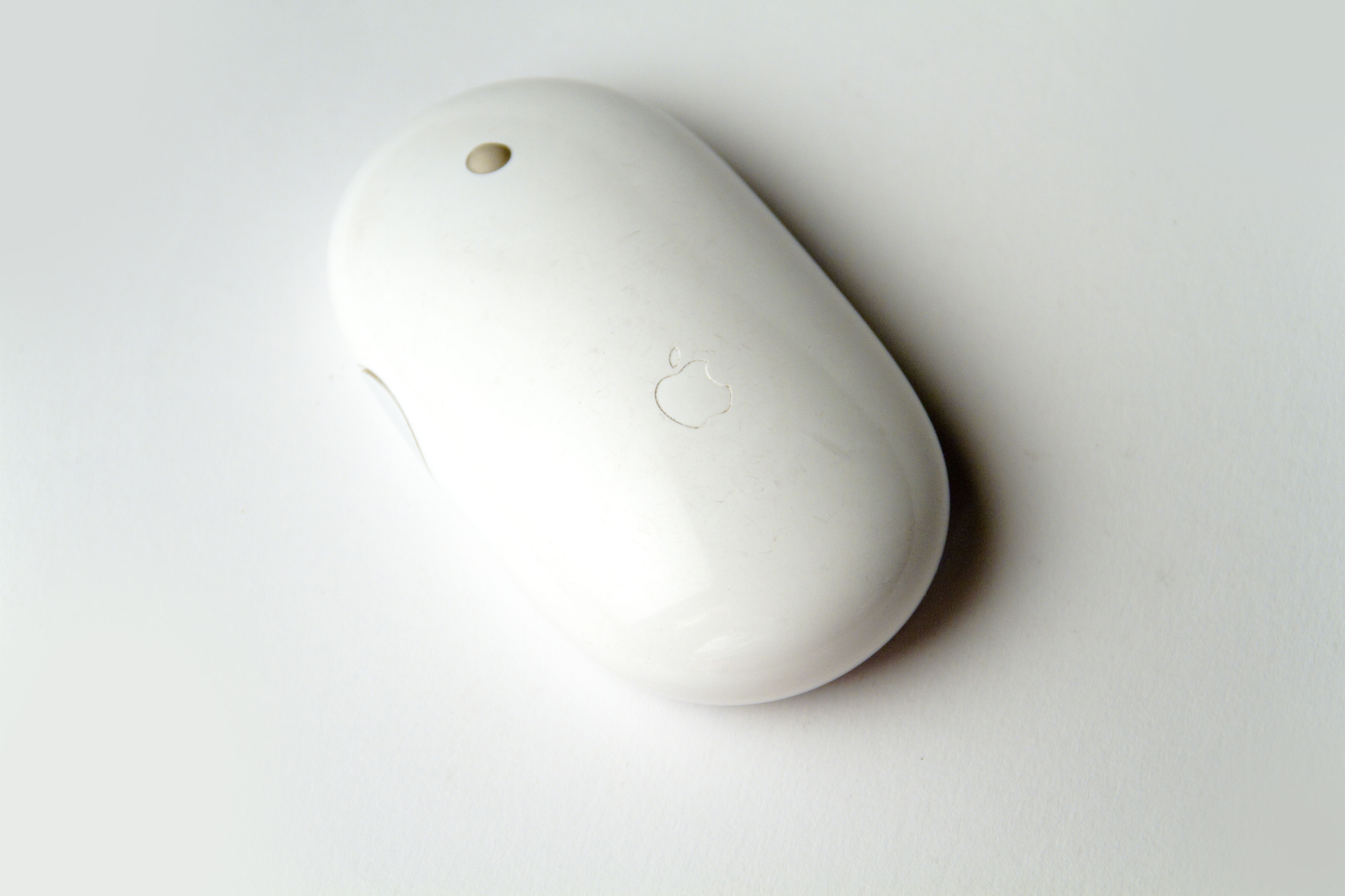 Apple Mighty Mouse Wireless in perspective